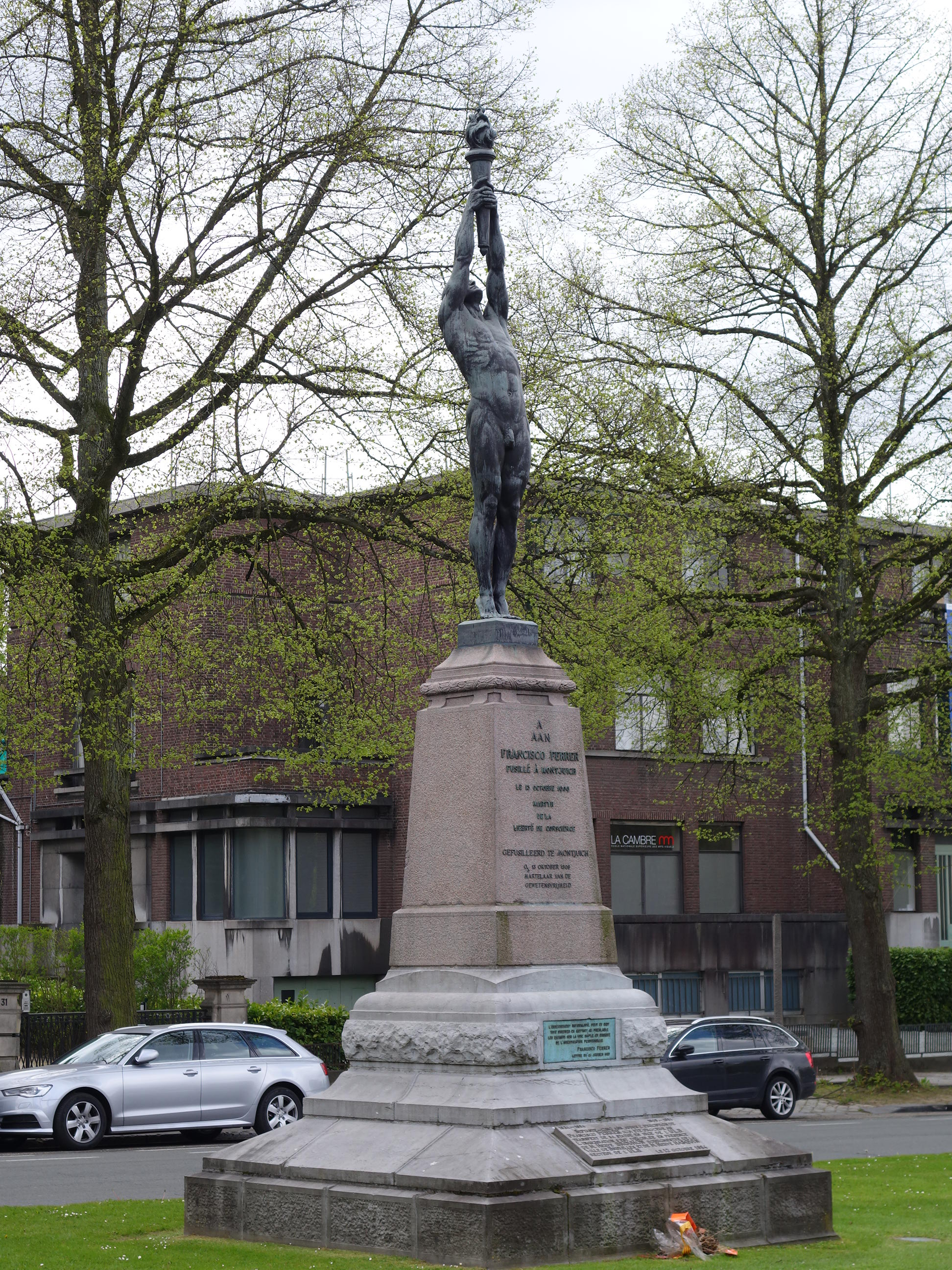 Monument to Francisco Ferrer, Brussels